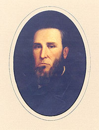 James Wilson Henderson, 4th Governor of the State of Texas.